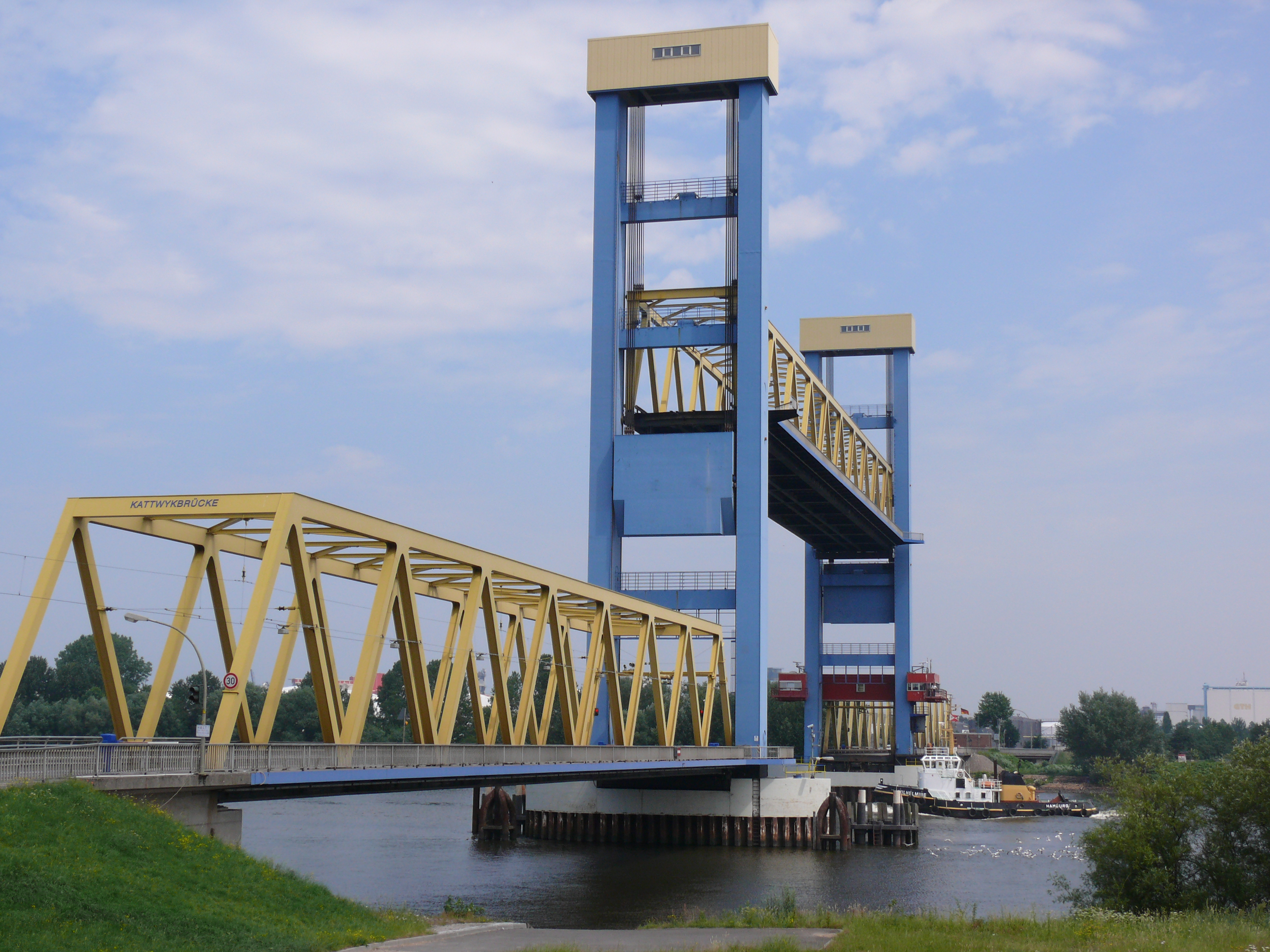 Kattwyk Bridge, Hamburg, opened for ships passage